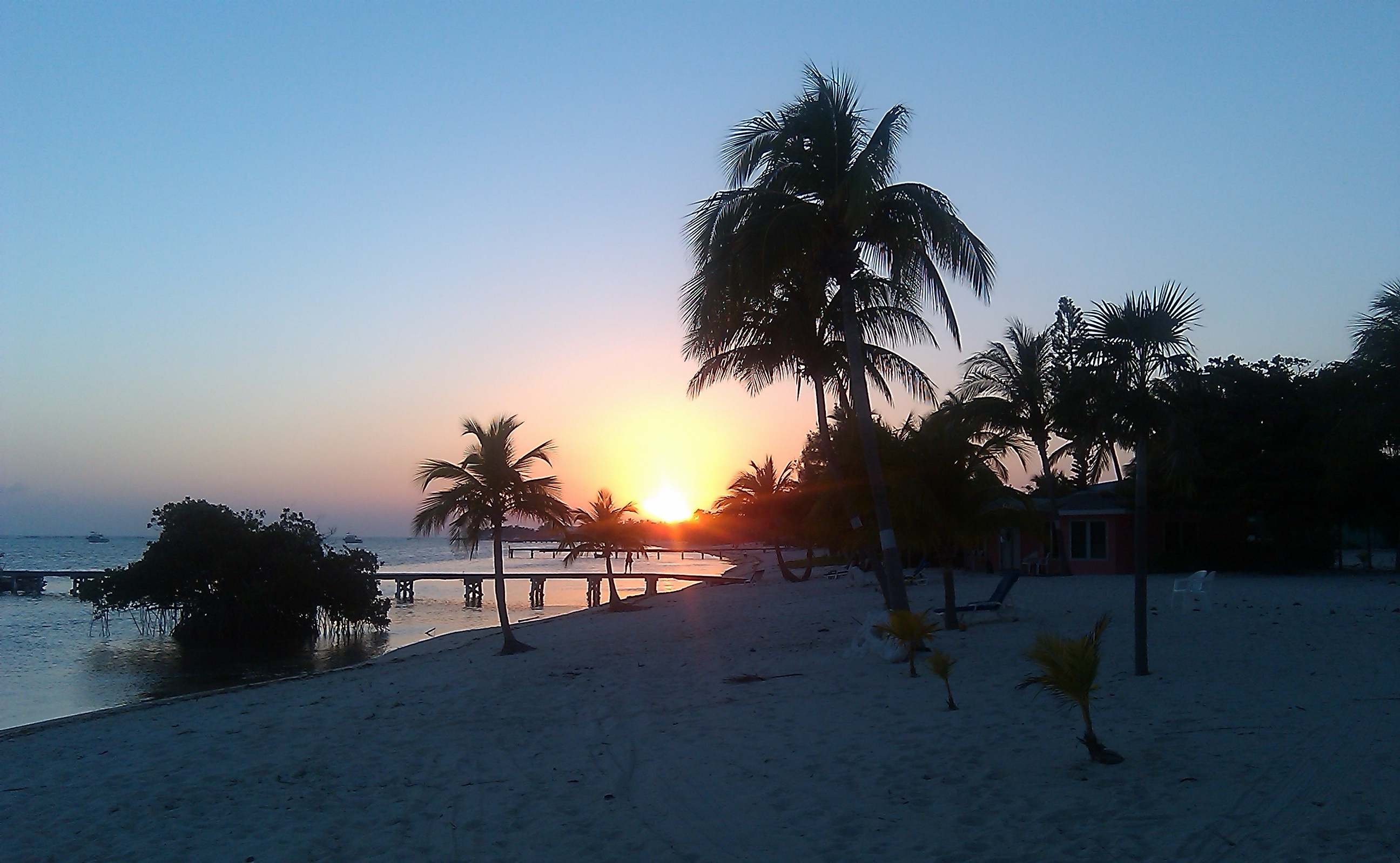 my vacation